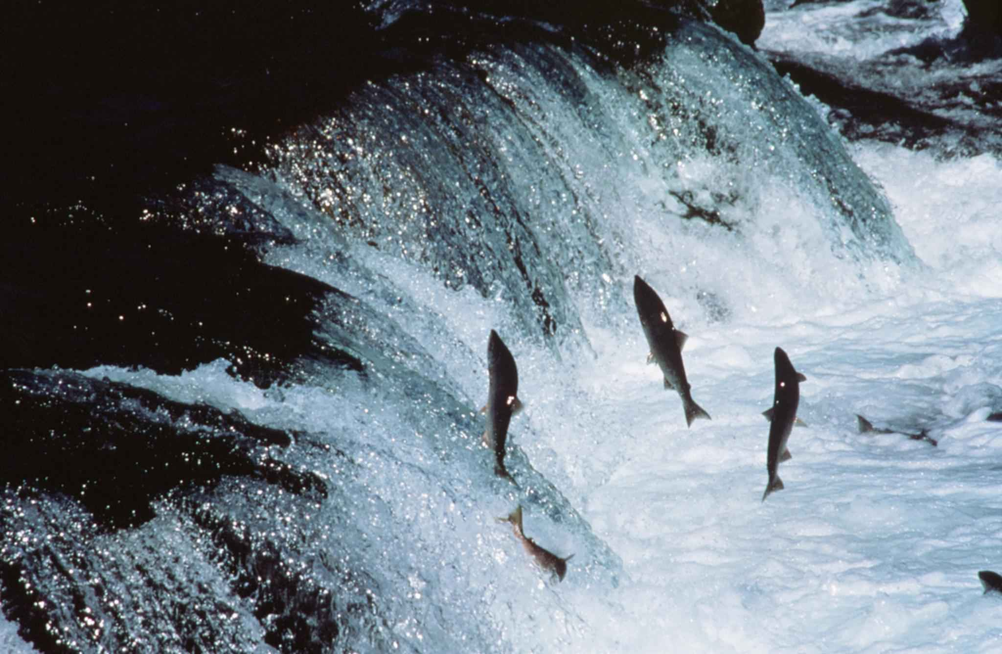 Image title: Adult sockeye salmon encounter a waterfall on their way up river to spawn Image from Public domain images website